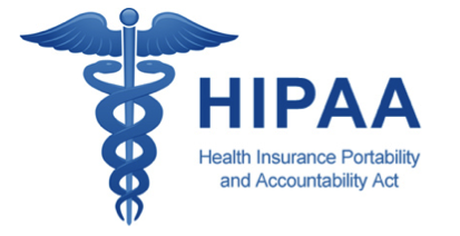 screenshot of home page